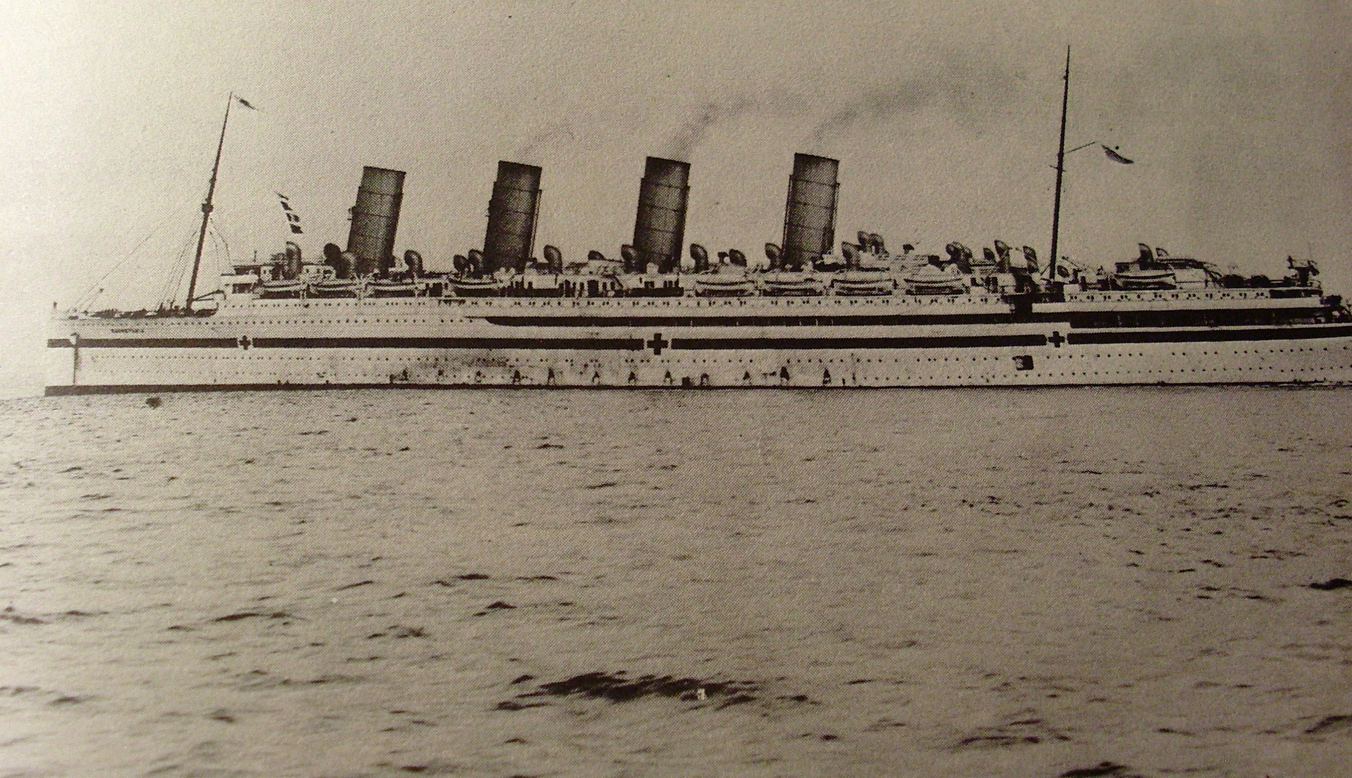 RMS Mauretania as a hospital ship